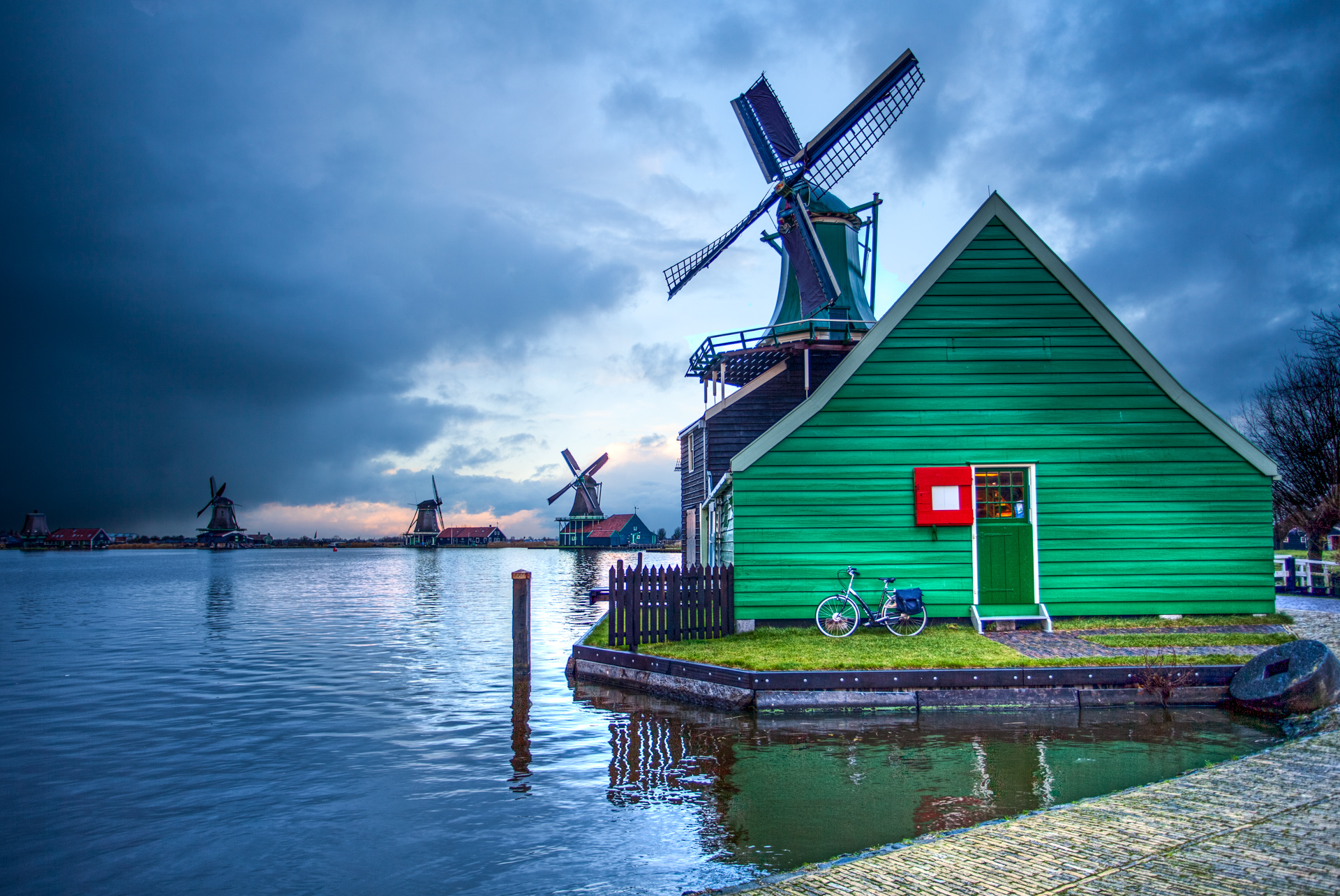 Windmills at Zaanse Schanse, The Netherlands. Photograph by Anne Dirkse